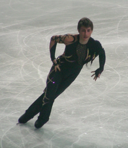 Brian Joubert on the 2007 European Figure Skating Championships in Warsaw - free skate